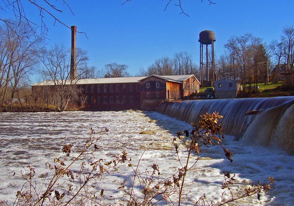 Photographed by Daniel Case 2006-11-10 (Note that replicating this picture is a little dangerous as you must stand on a steep slope a few feet above the river, which was in this case rather high).